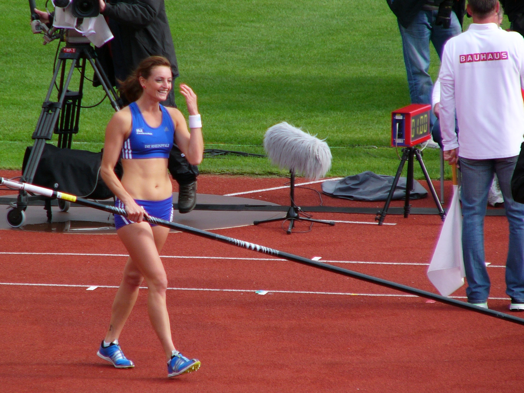 Kristina Gadschiew at the 2011 German Athletics Championships in Kassel